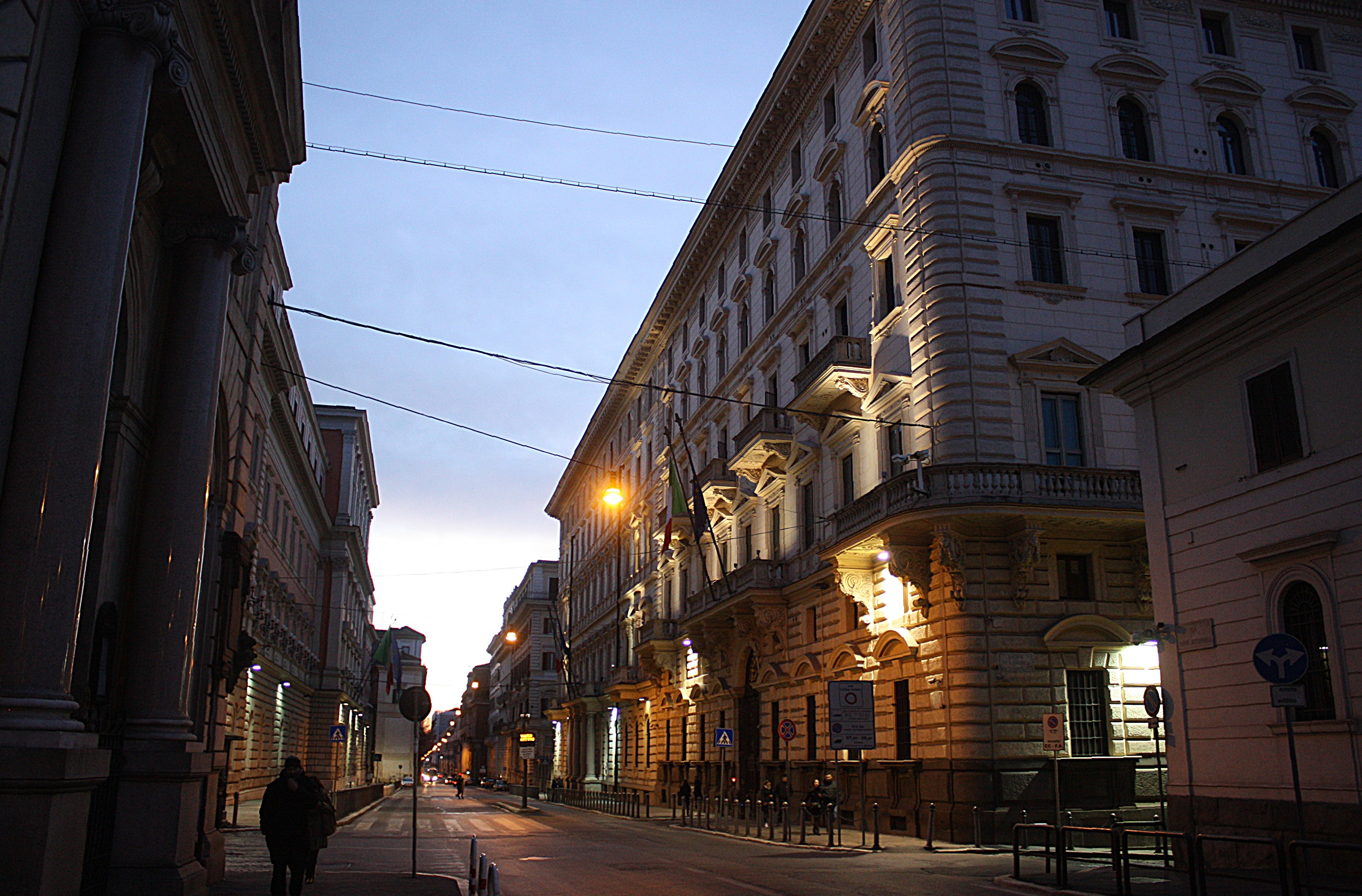 Rome, the street Via XX Settembre